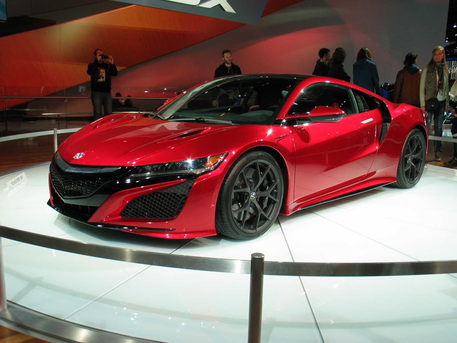 2016 Acura NSX